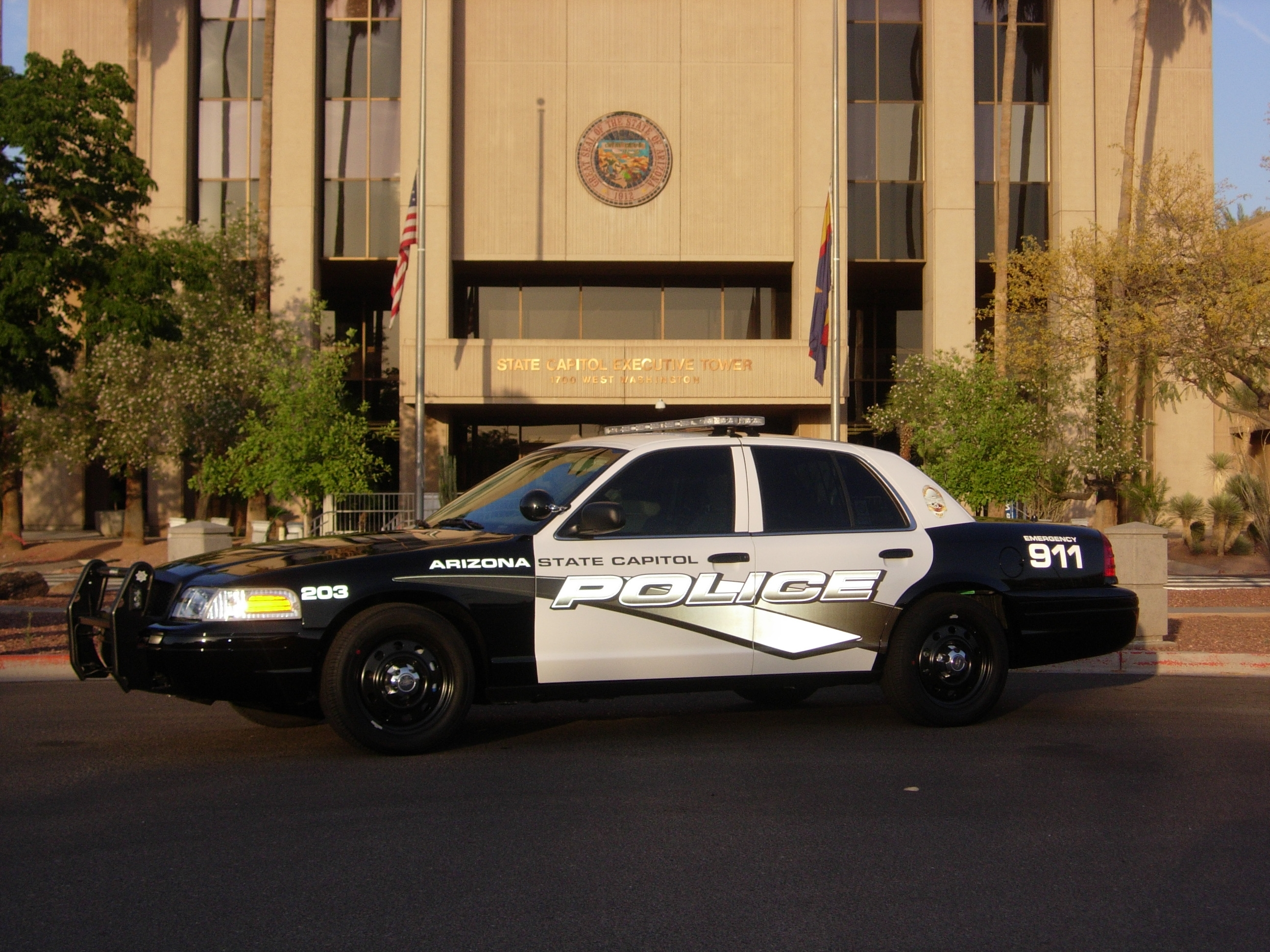 picture of the Arizona State Capitol Police patrol car, newest color and striping scheme